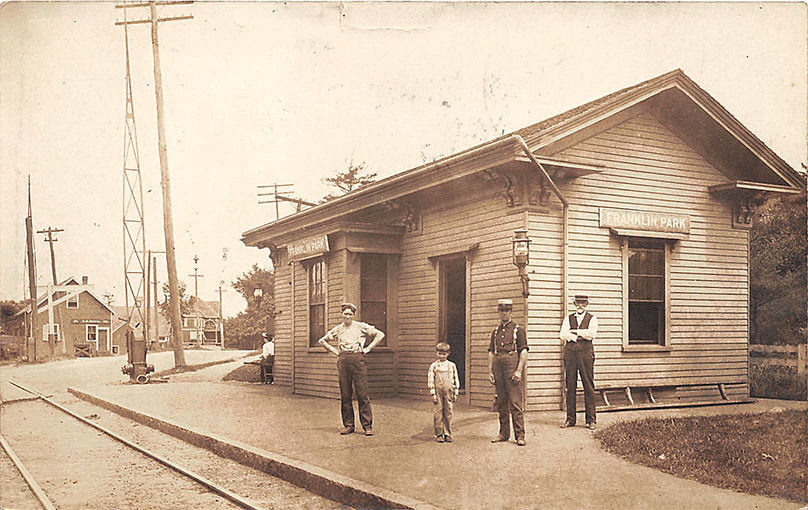 1907 real photo postcard of Franklin Park station on the Saugus Branch